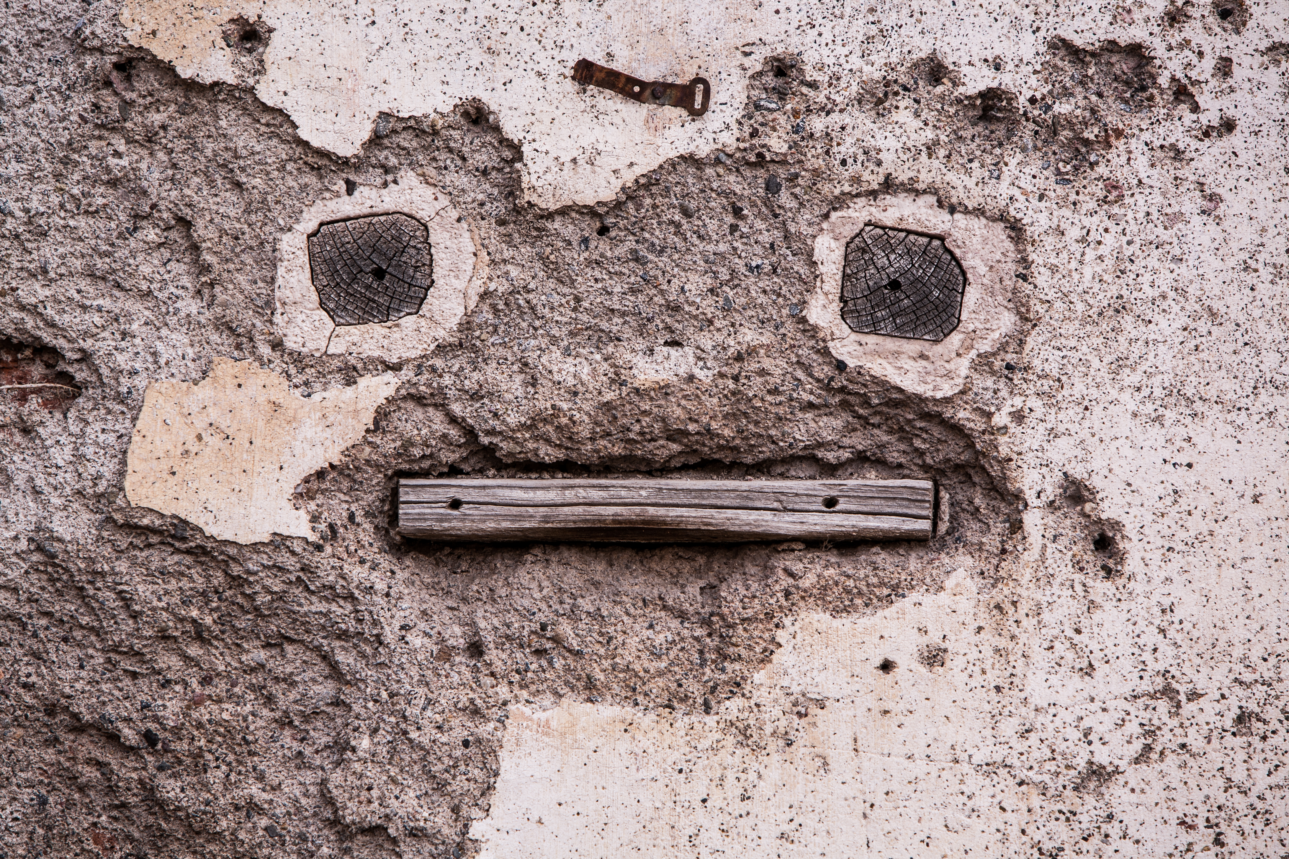 Old concrete wall A geocoded location could be added to this image. Visit Commons:Geocoding for information on how to add coordinates. Beta-test: Add coordinates helps to determine coordinates.